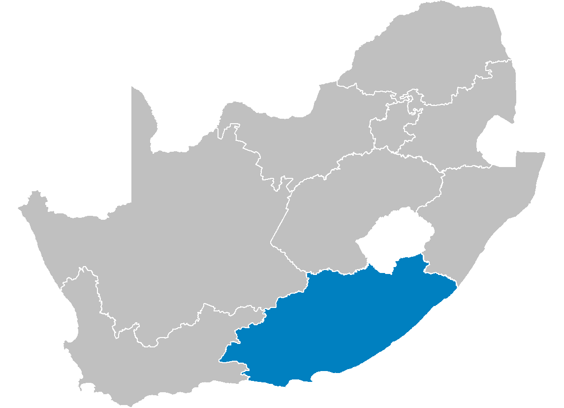 Map of South Africa showing the Eastern Cape province after the 12th amendment of the constitution in December 2005.